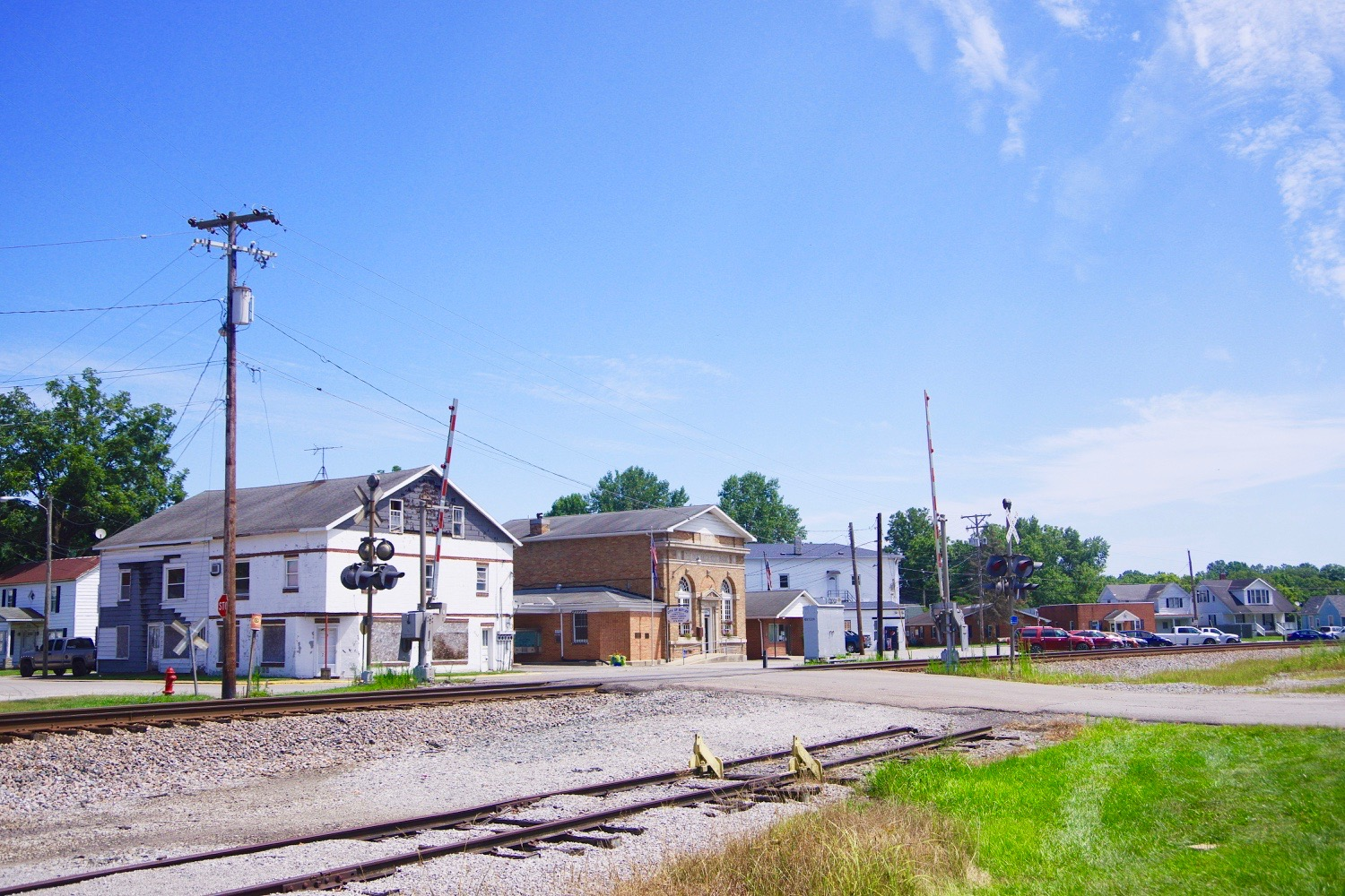 Buildings along Front Street in Butler, Kentucky, United States.